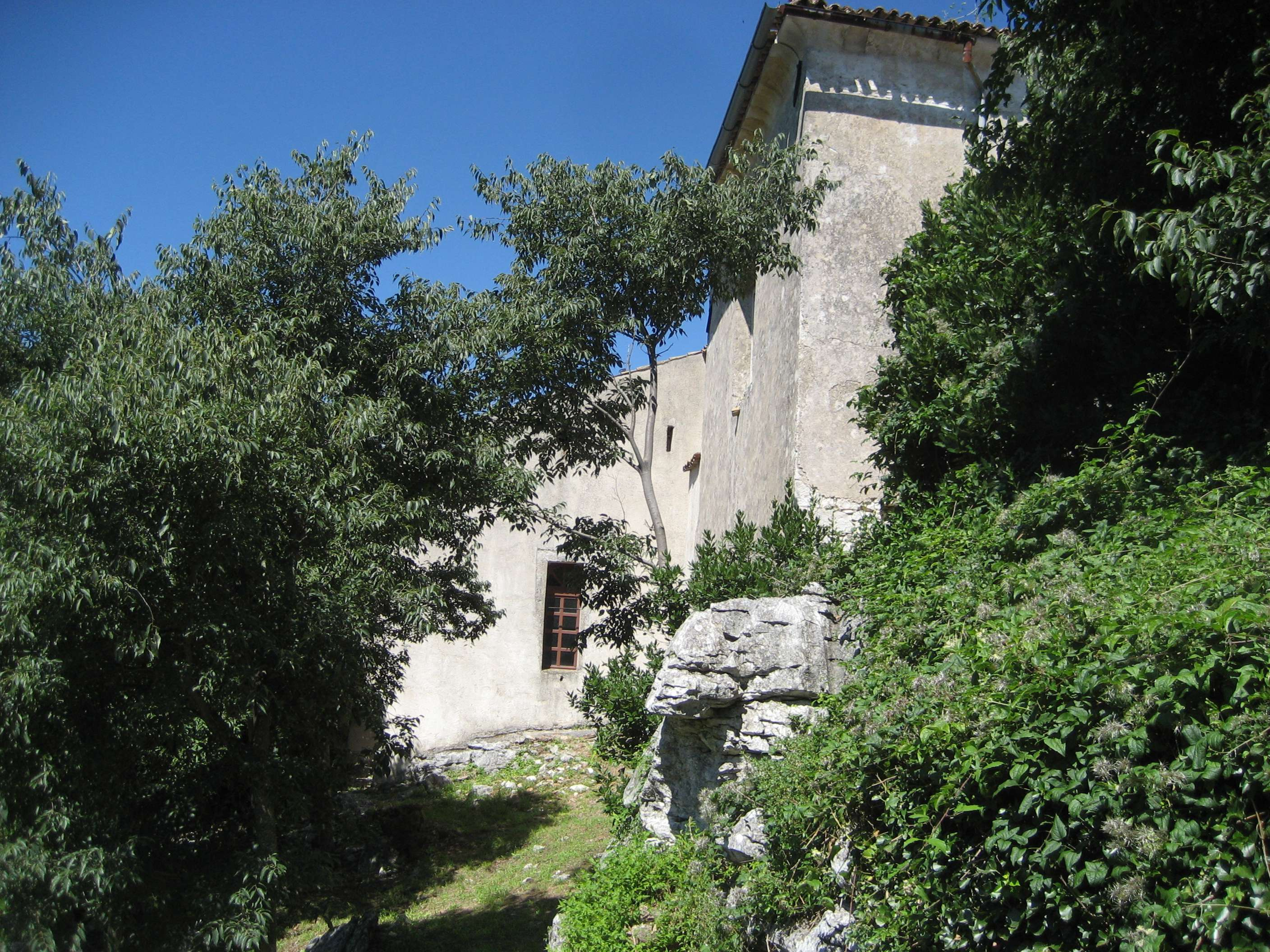 Catsle Krsan, Croatia